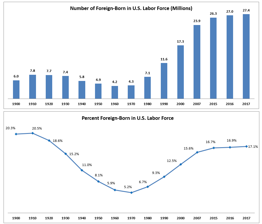 US Census Bureau Chart of foreign born in the US labor force 1900 to 2017